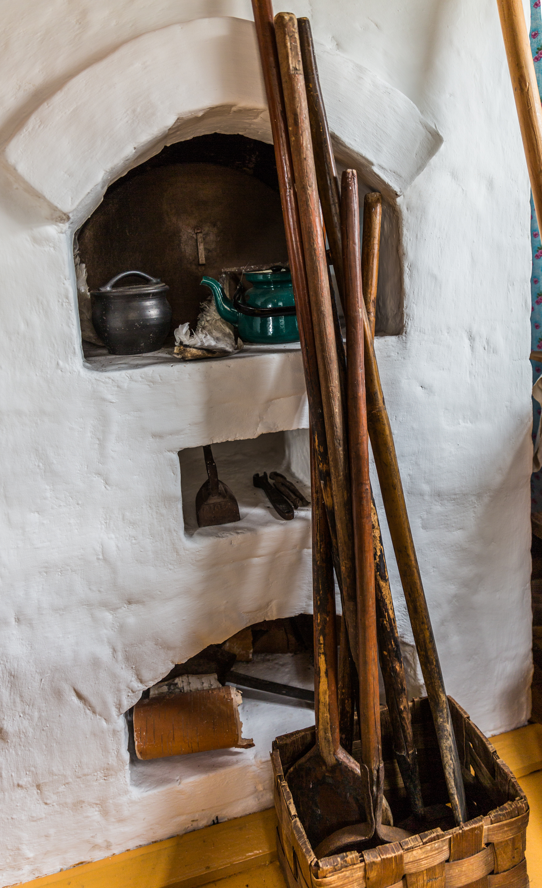 Russian oven whith kitchen utensils in the house of Astafyev grandmother. Ovsyanka village, Shchetinkin street, 35